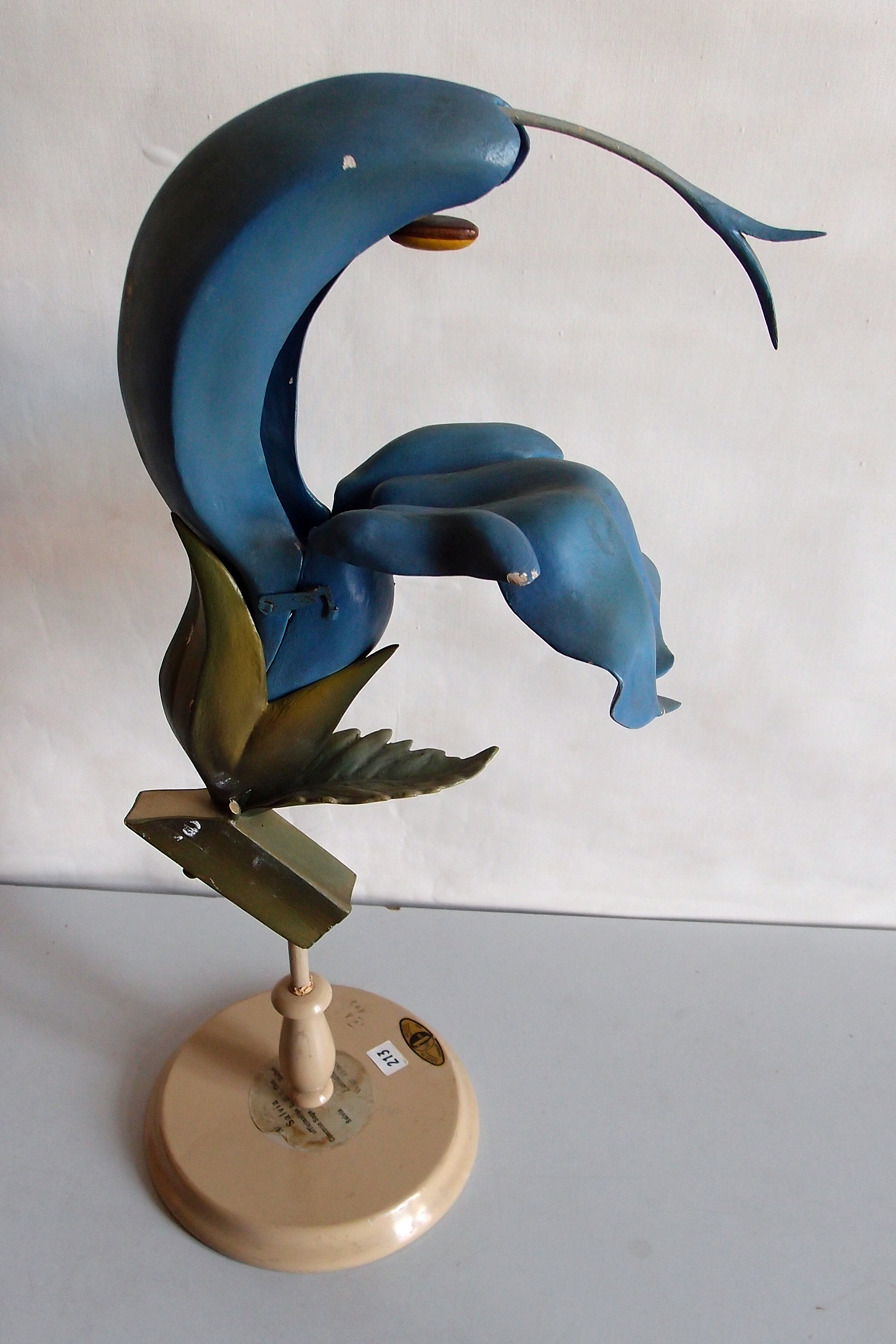 Model from the collection of the Botanical Museum in Greifswald, Germany. . see also for more information on the models